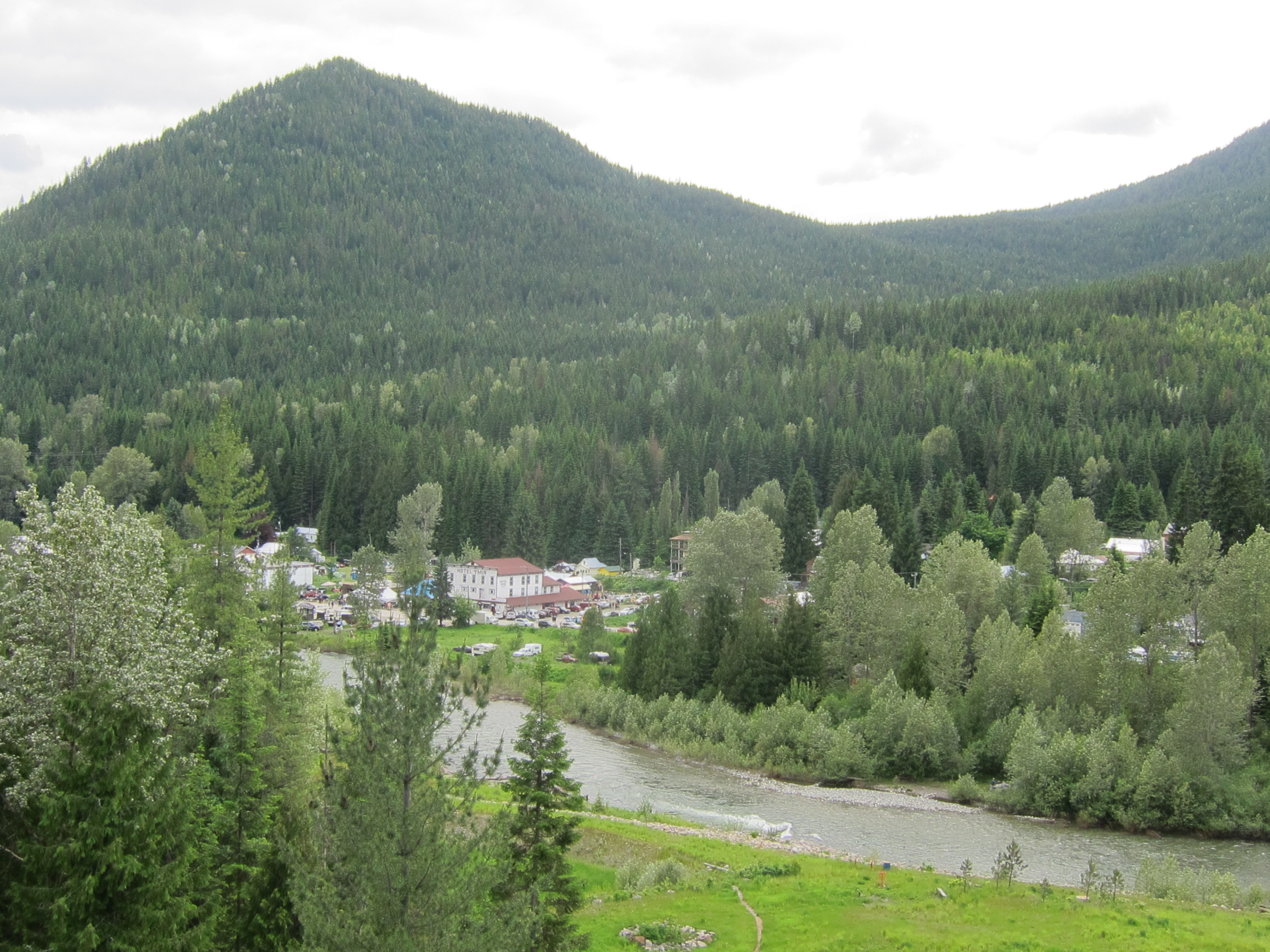 The town of Ymir, British Columbia, in the Kootenay area of the province. Taken during the Tiny Lights music festival.